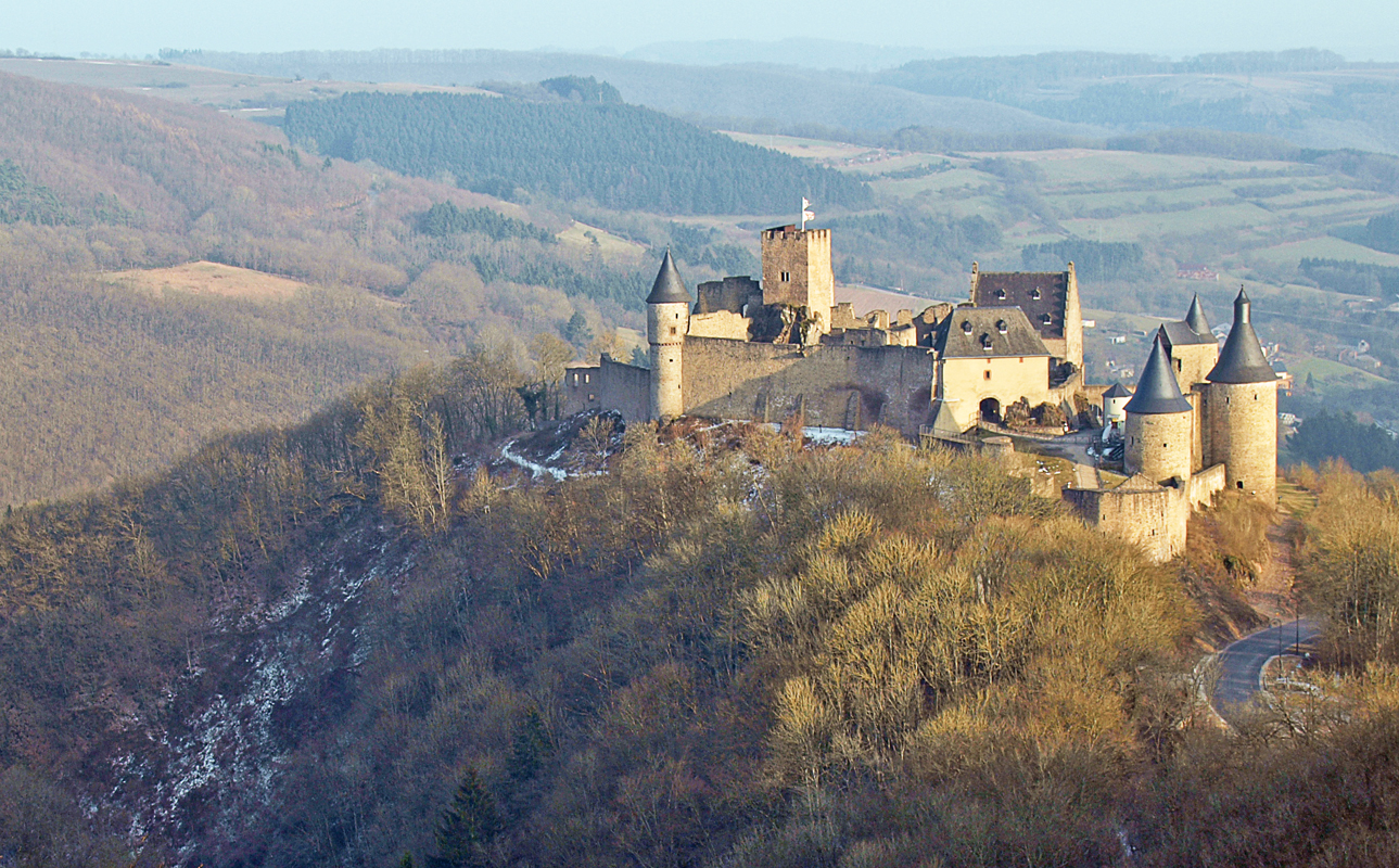 Bourscheid castleLëtzebuergesch: D'Schlass vu Buurschent